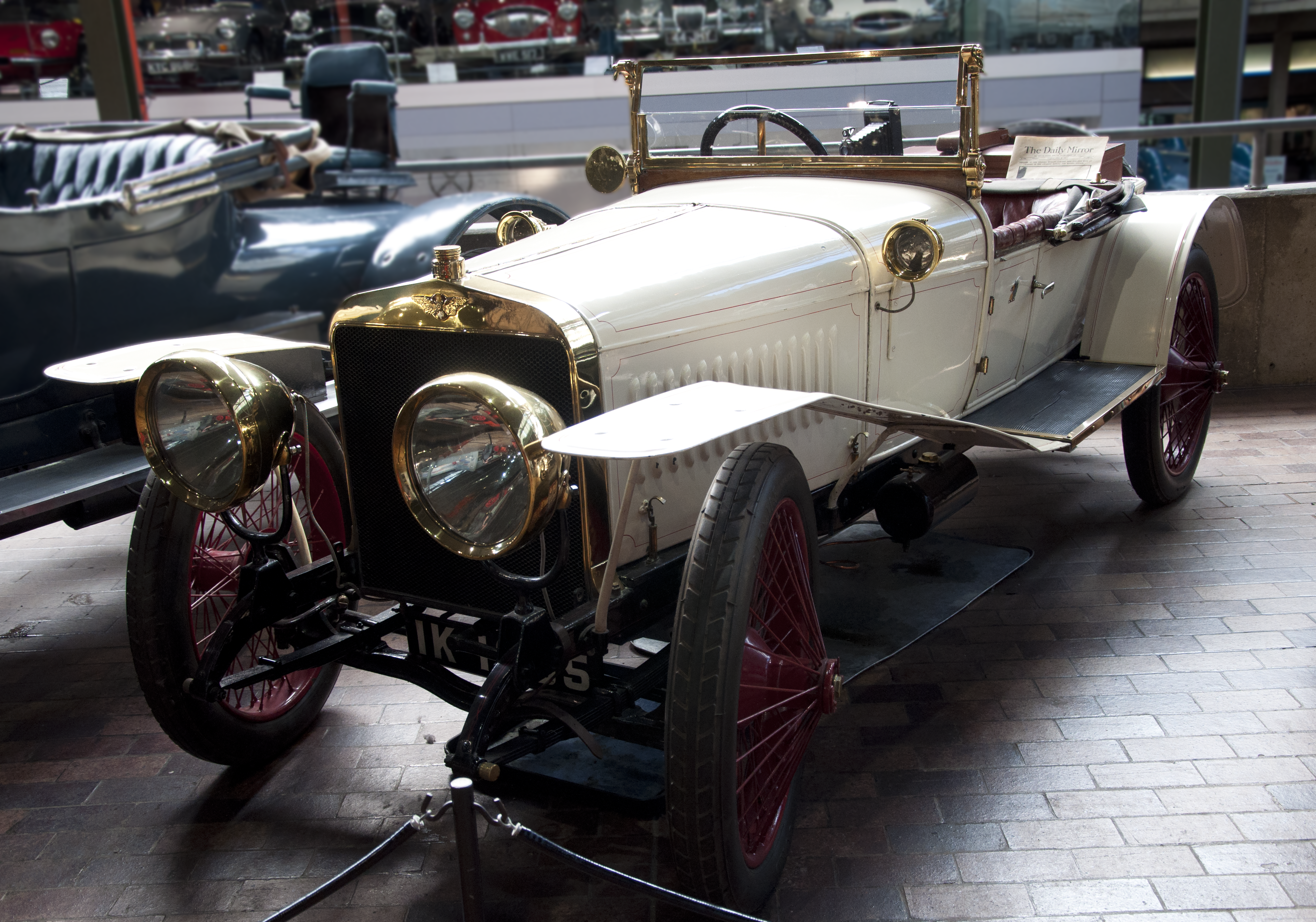 Hispano-Suiza Alphonso XIII at the National Motor Museum, Beaulieu, England